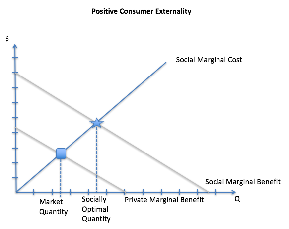 positive consumer externality